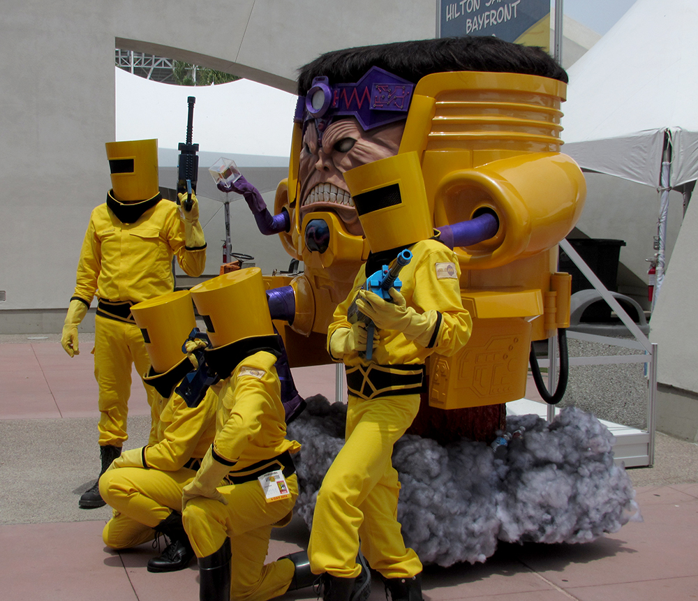 Comic-Con 2014 Cosplay